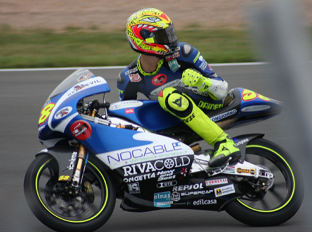 Marco Simoncelli during 2005 British motorcycle Grand Prix